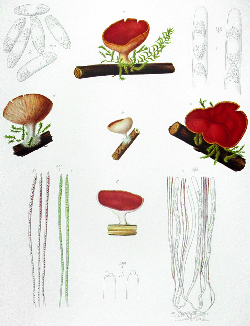 The cup fungus Sarcoscypha coccinea (Scop.) Lambotte. (a), (c), (e) fruit bodies; (b), (d) view of whitish tomentose (hairy & matted) surface and fuzzy hairs at base of stem; (g), (h) Paraphyses containing pigment granules; (i) ascus tips with spores; (k) Spores showing polar distribution of small oil droplets (f) asci and paraphyses, cellular components of the hymenium; (j) ascus tips showing operculum